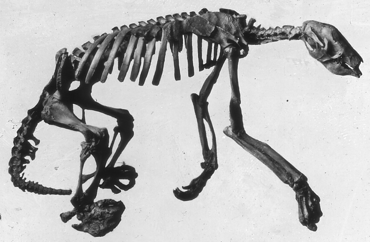 Nothrotheriops of shastense, nearly full grown, partly mummified body from bat guano in cave. Bones held in articulation by sinews; horny claws still present; patches of hide with traces of hair on head and pelvis. Food ball shows what it lived on. this species is also known from Rancho la Brea. Specimen in Peabody Museum of Yale.